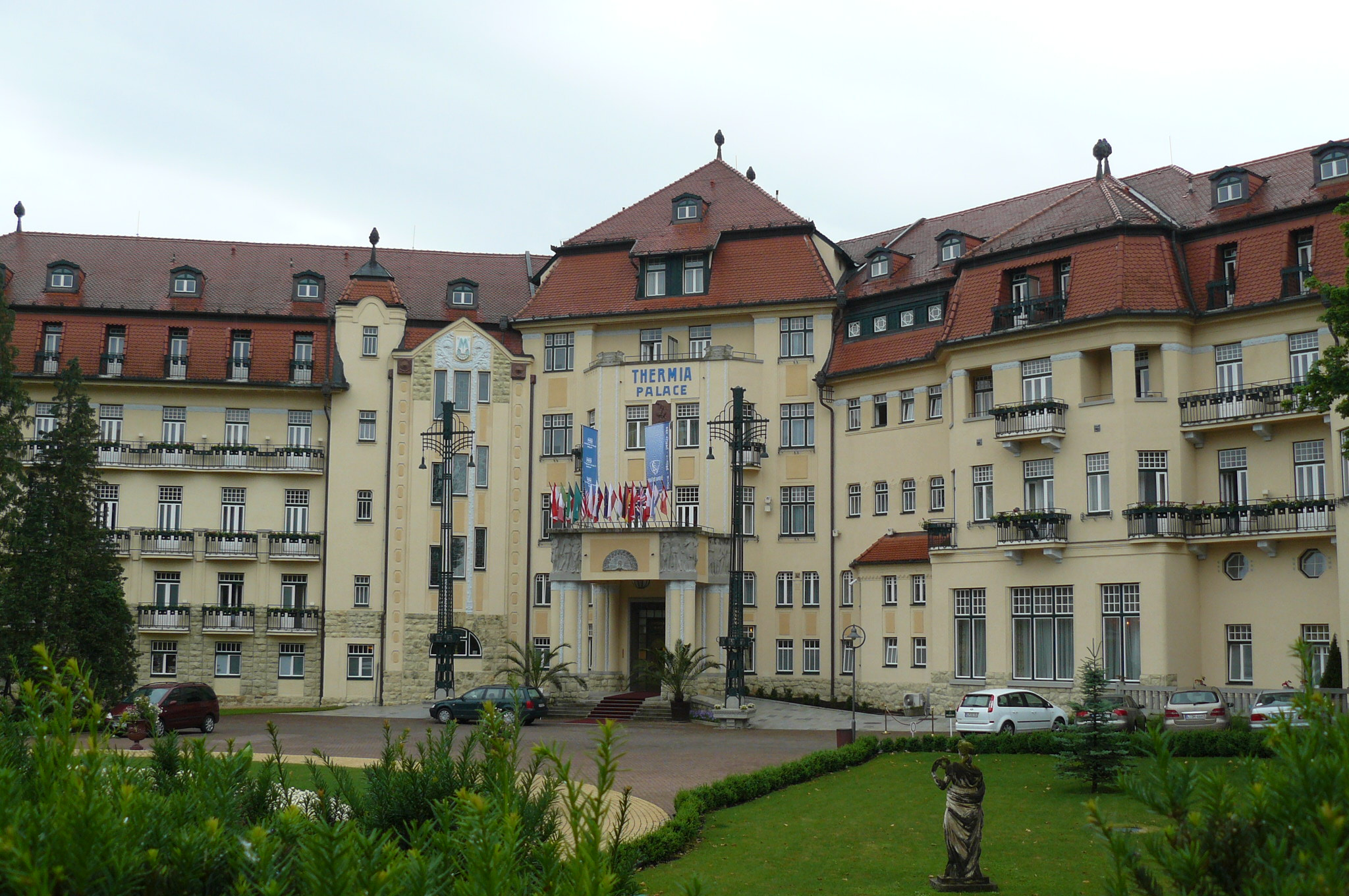 Piešťany - Thermia Palace. Slovakia.